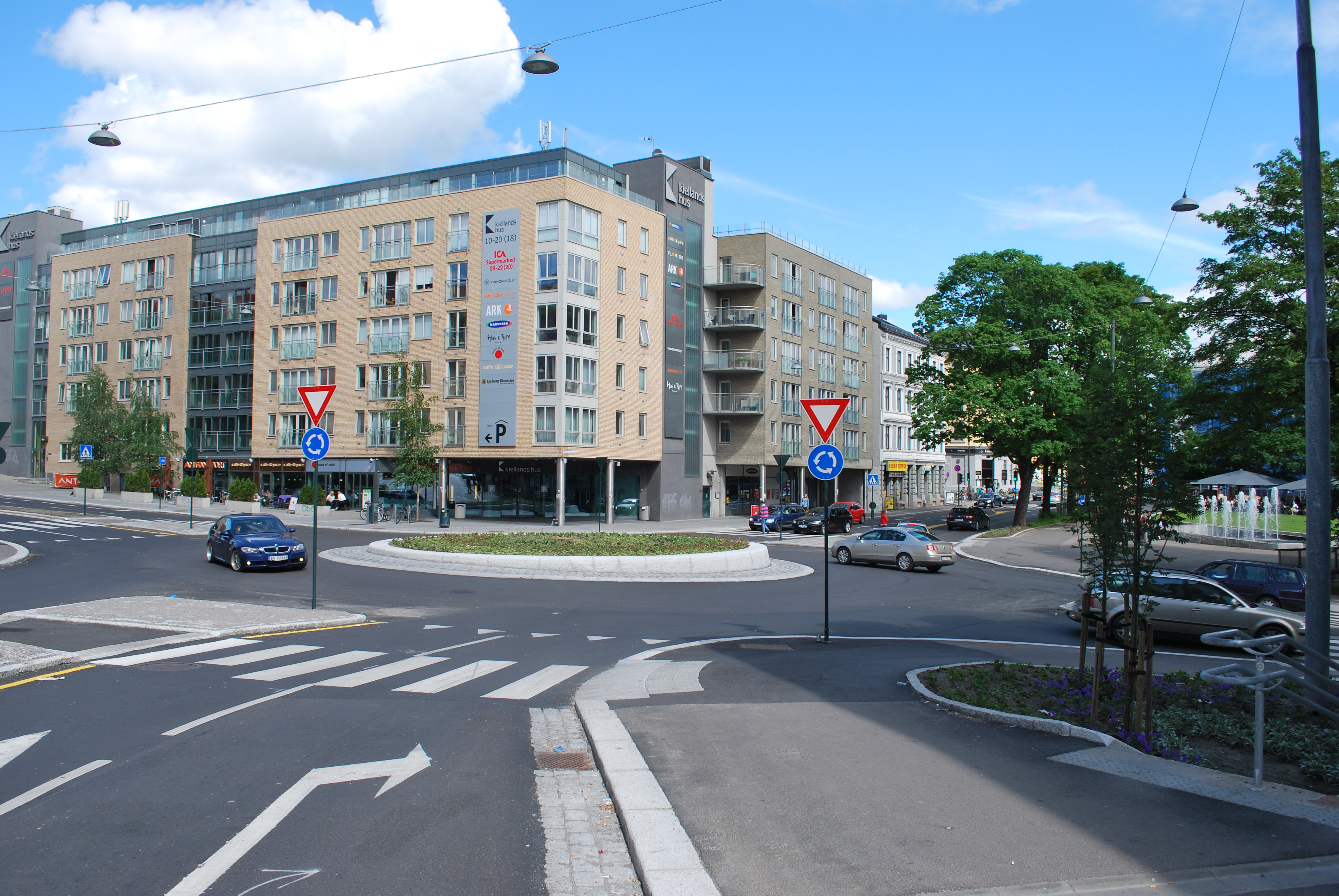 Alexander Kiellands plass, Ila, Oslo, rundkjøringen som ble feredig i 2013